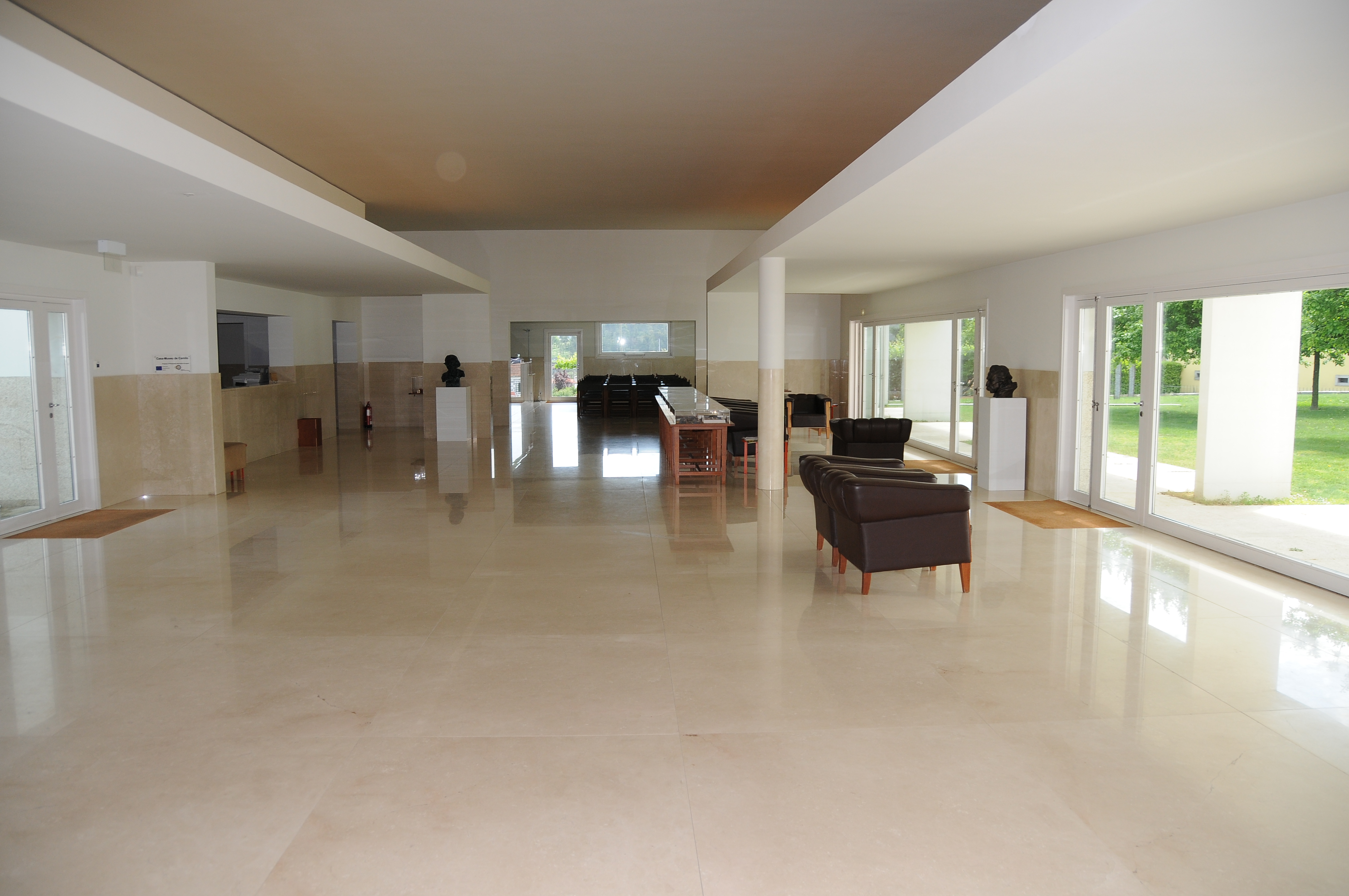 Interior of Camilo Castelo Branco Study Center in Famalicão, Portugal